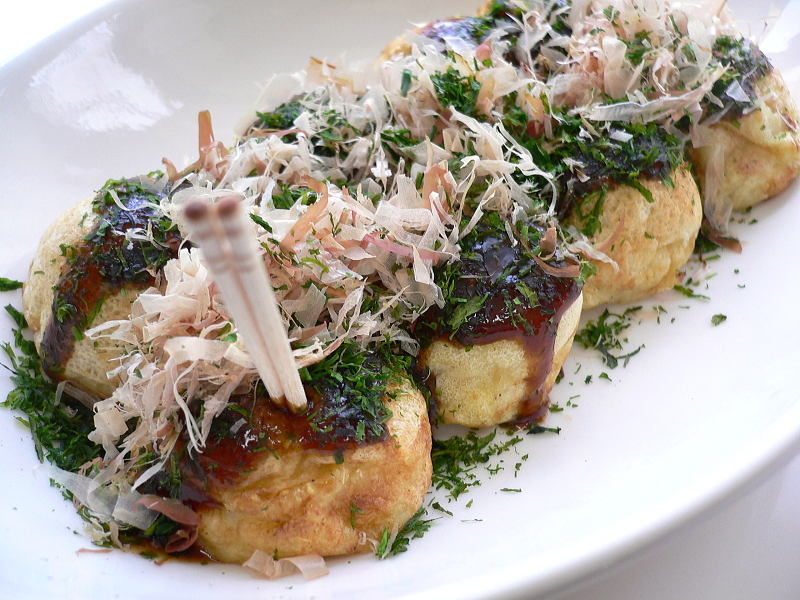 Ready-to-eat takoyaki.